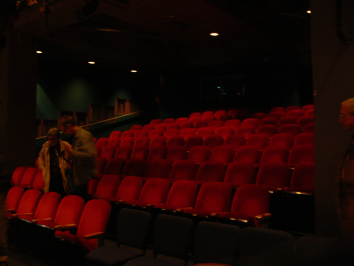 San Francisco, 25 Van Ness Avenue Auditorium of one of the New Conservatory Theatre Center (NCTC) stages